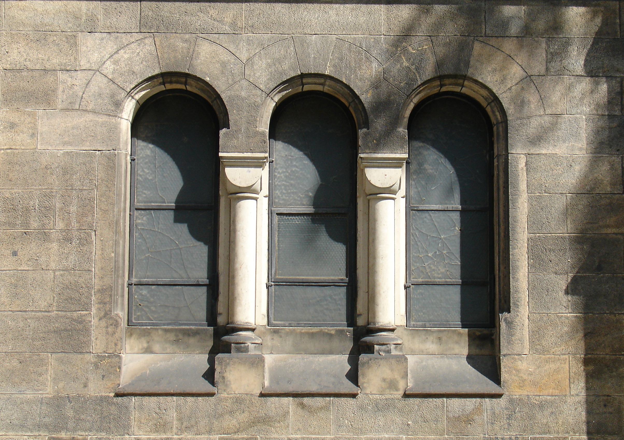 Martin-Luther-Kirche, Dresden: detail of triforium